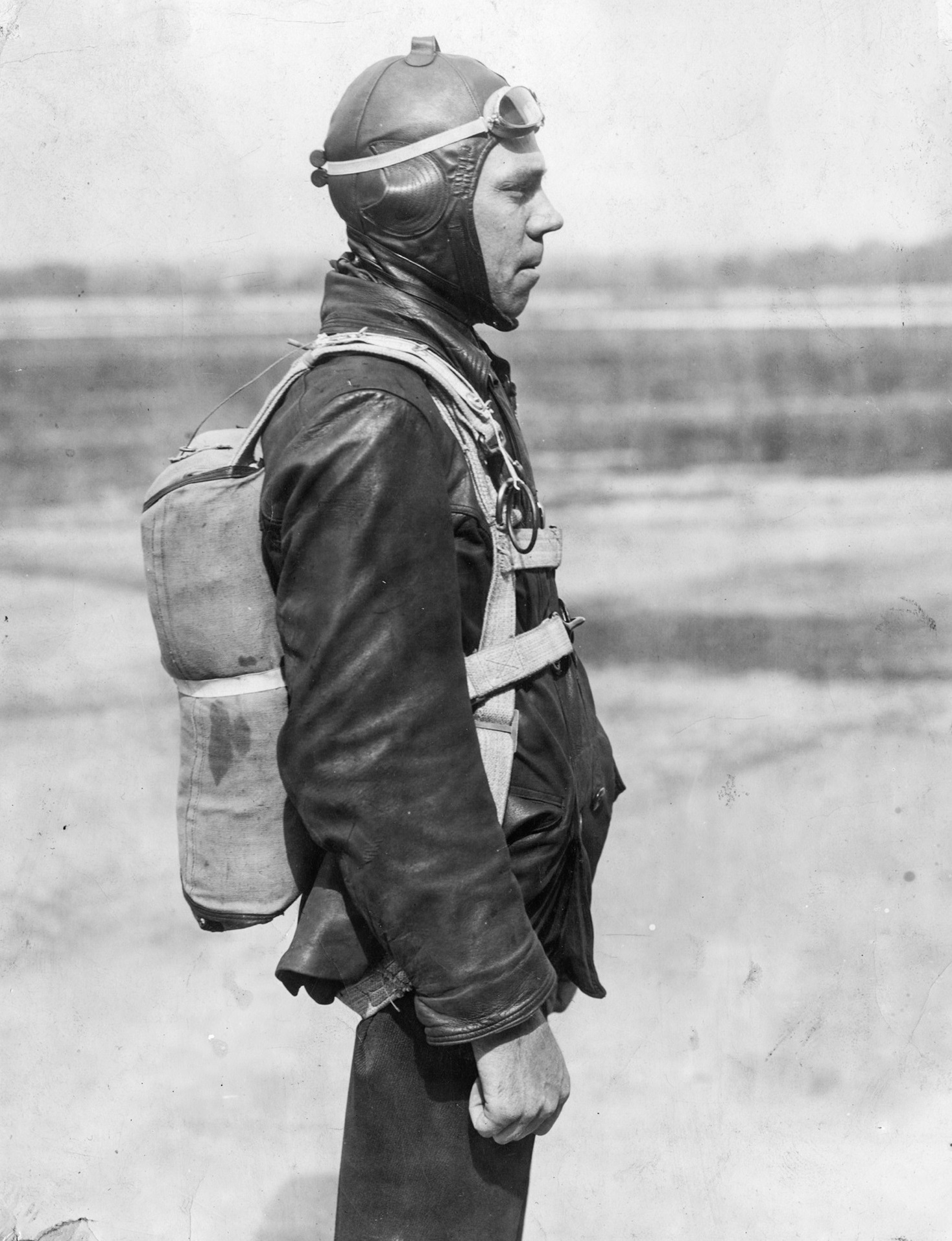 Floyd Smith wears the “Type A” parachute at McCook Field in Dayton, Ohio, in May 1919. Image courtesy of the National Museum of the United States Air Force, Wright-Patterson Air Force Base, Ohio.